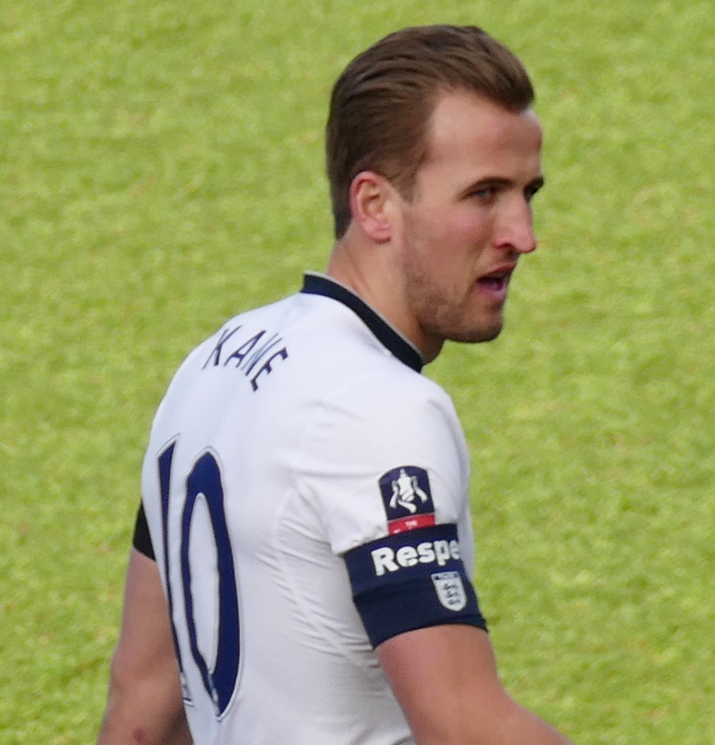 Harry Kane in a game against Colchester United in the FA Cup.